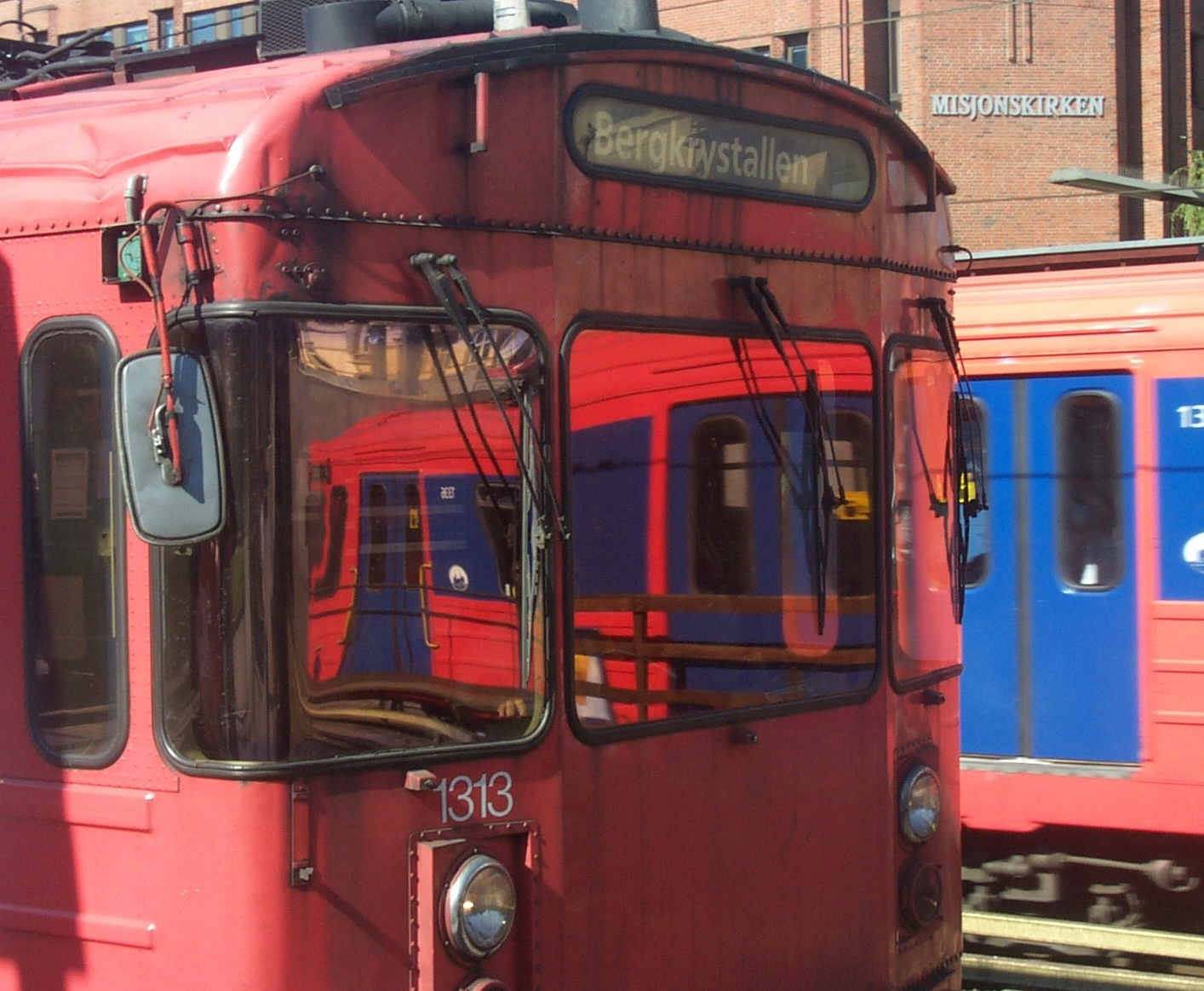 T1300 wagon at Majorstuen station at the Oslo subway